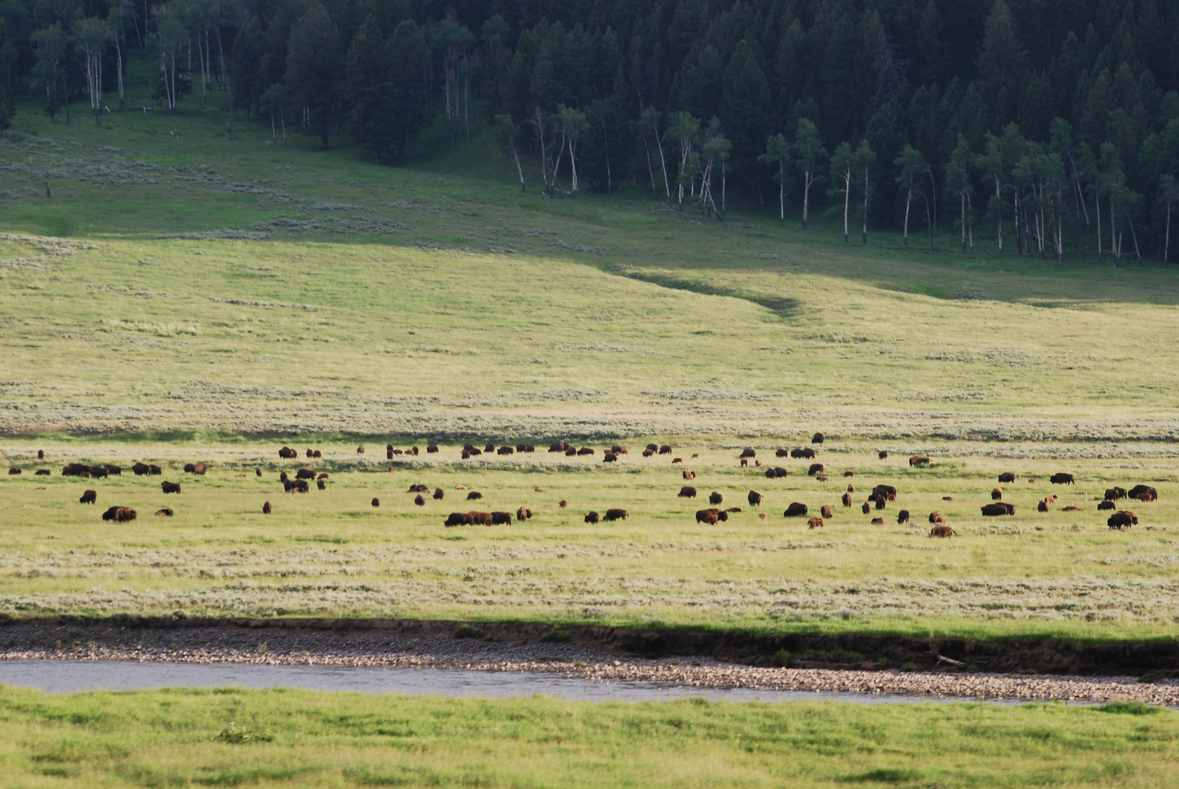 A buffalo herd along the banks of Lamar River, Wyoming, USA.